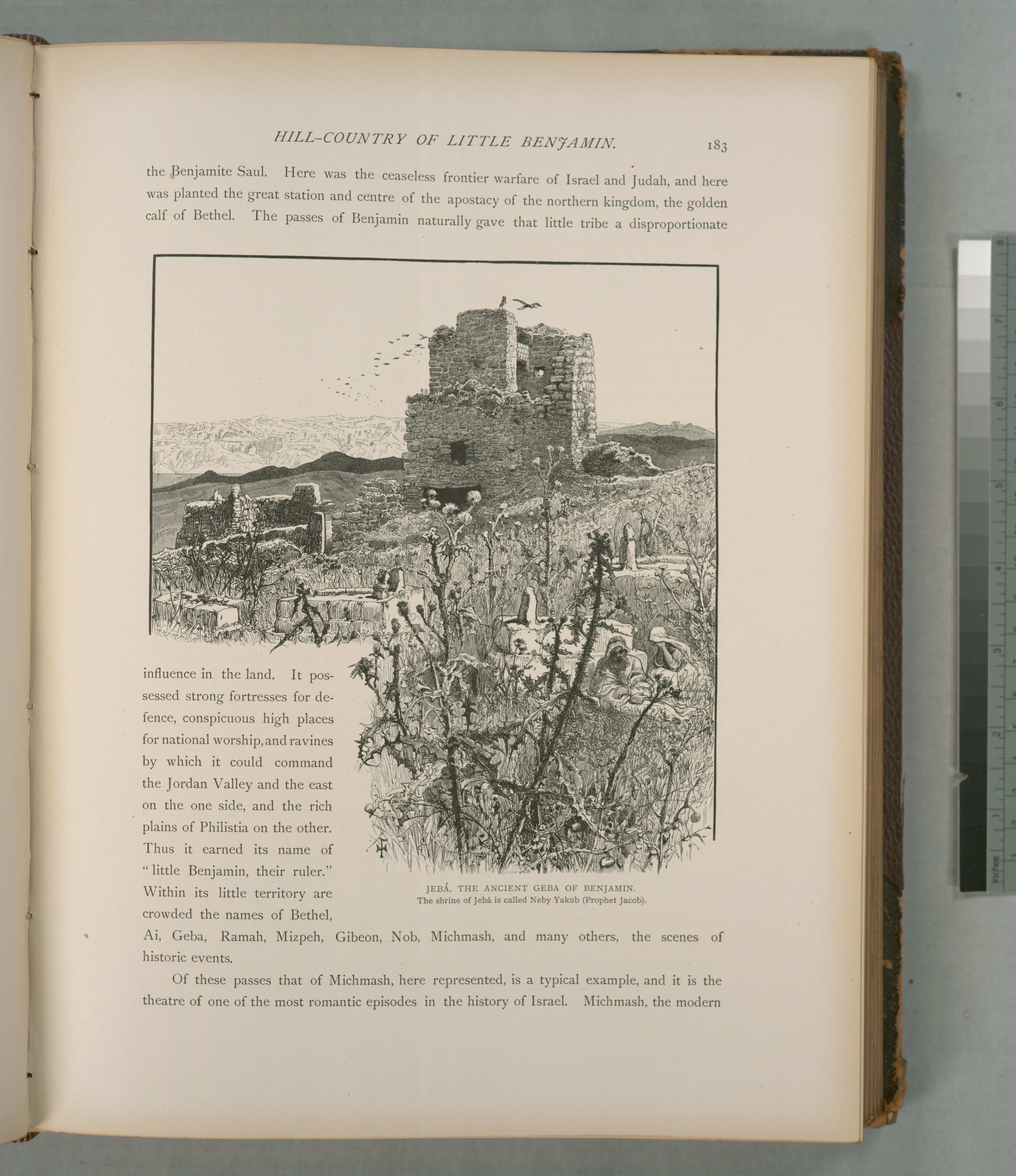 Colonel Wilson, ed.